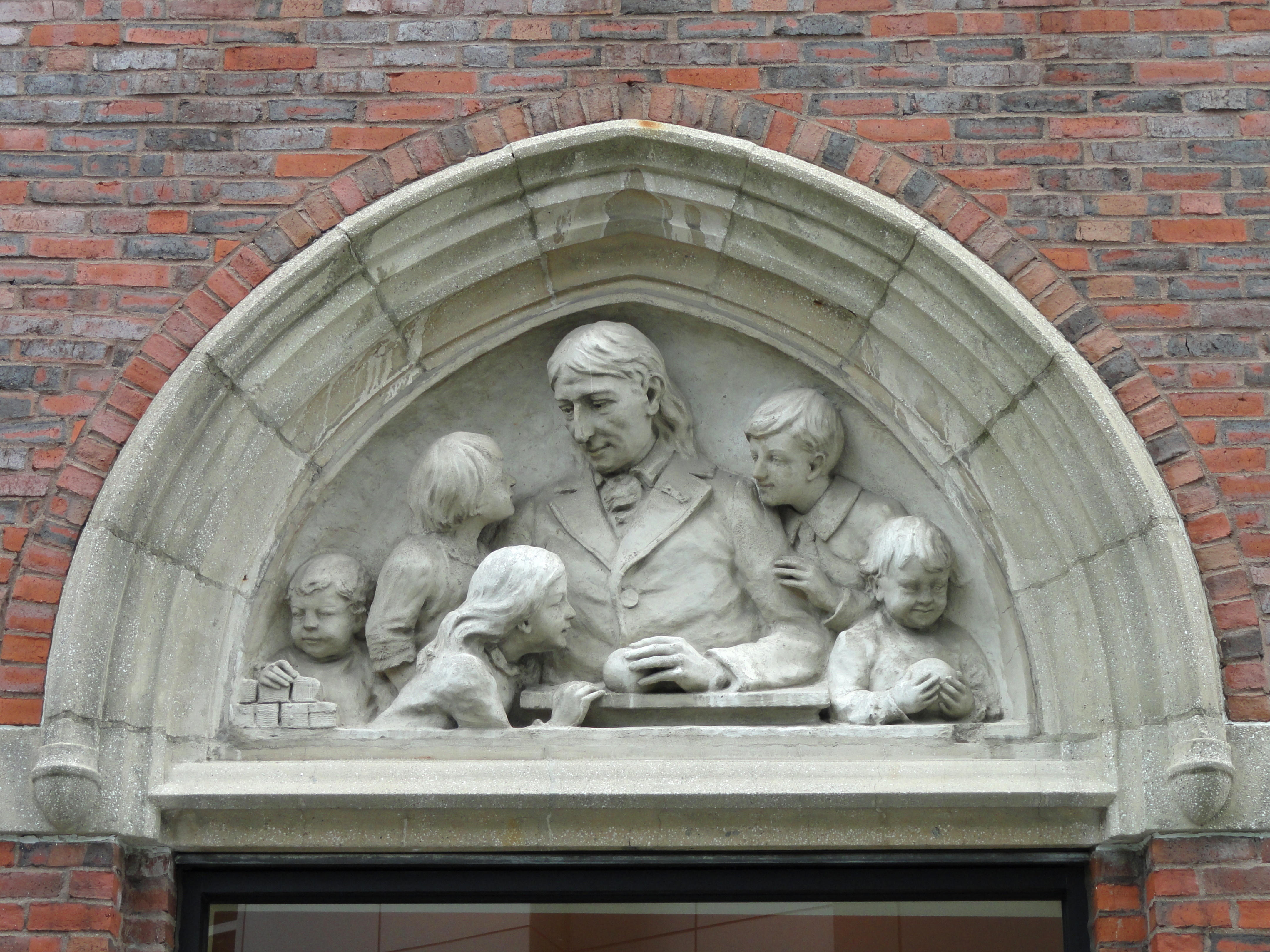 Bas-relief of Friedrich Fröbel (Froebel), founder of the kindergarten movement, over the library doorway, Wheelock College, 200 The Riverway, Boston, Massachusetts, USA.